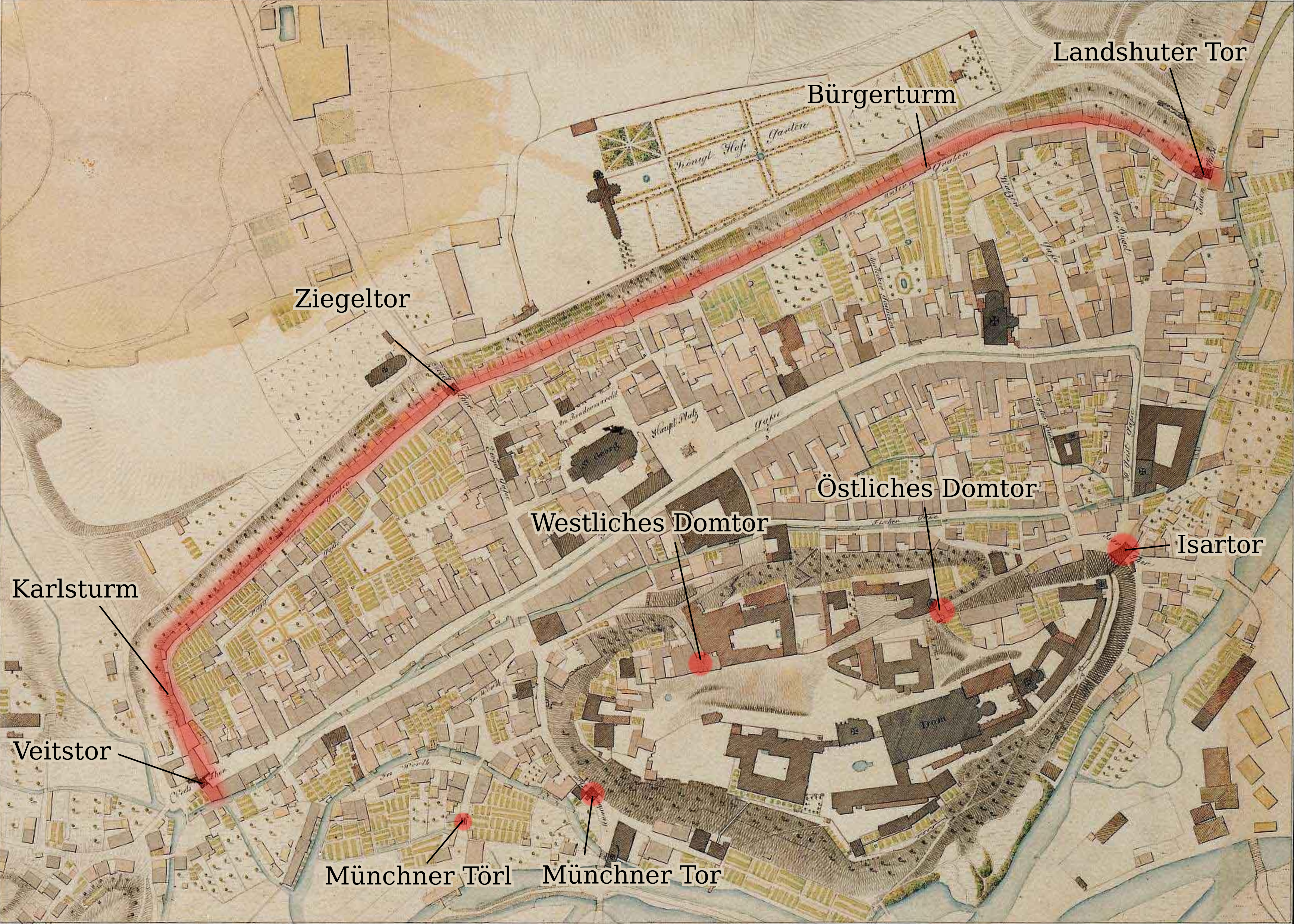 Map of the Freising defensive wall